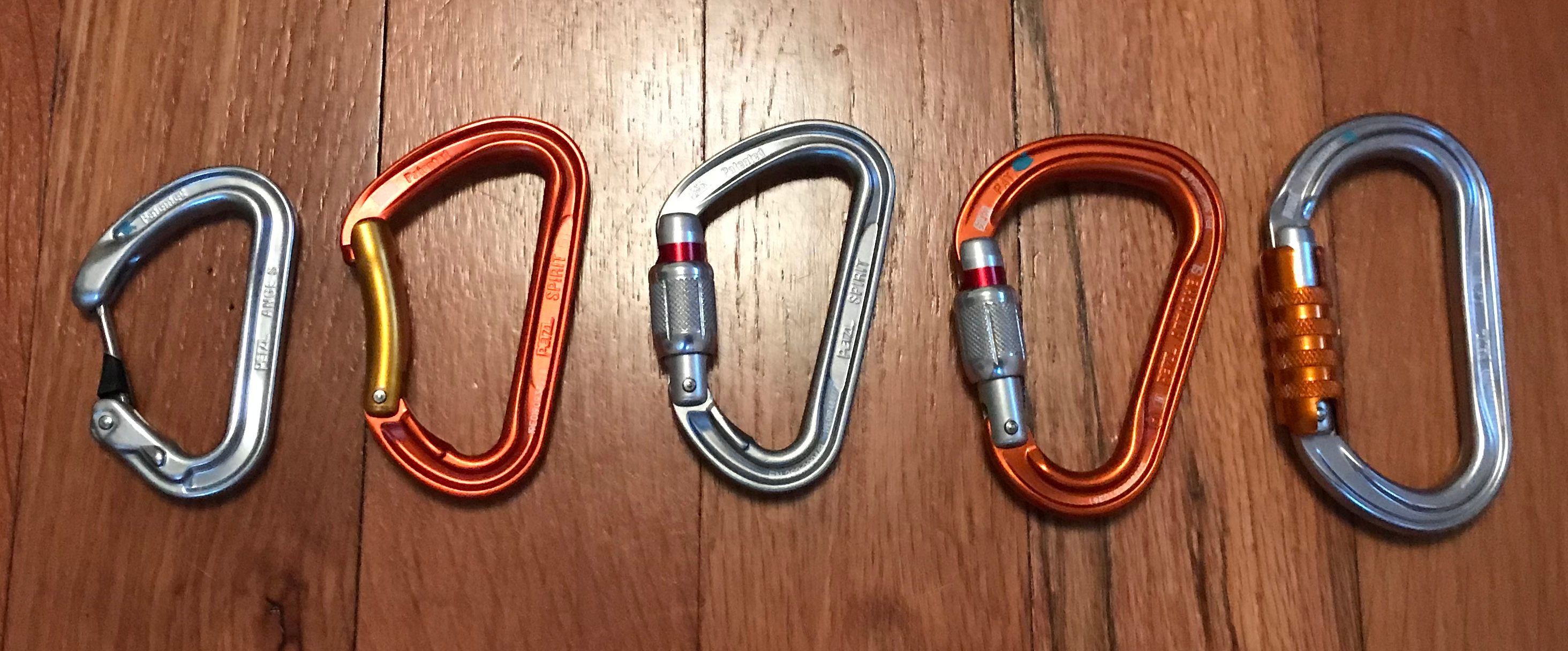 Petzl